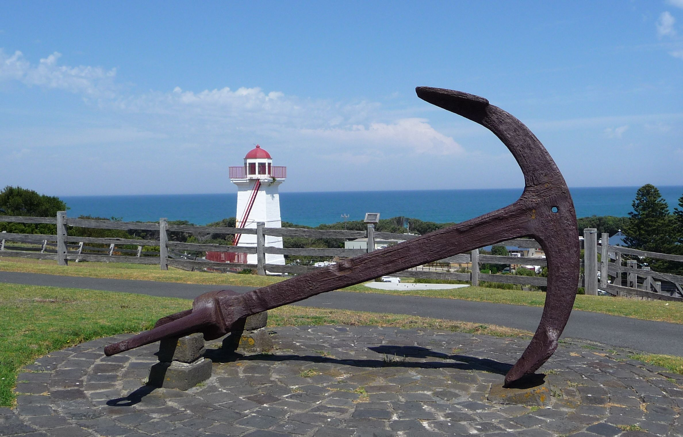 Anchor from the FALLS OF HALLADALE shipwreck, Victoria 1908